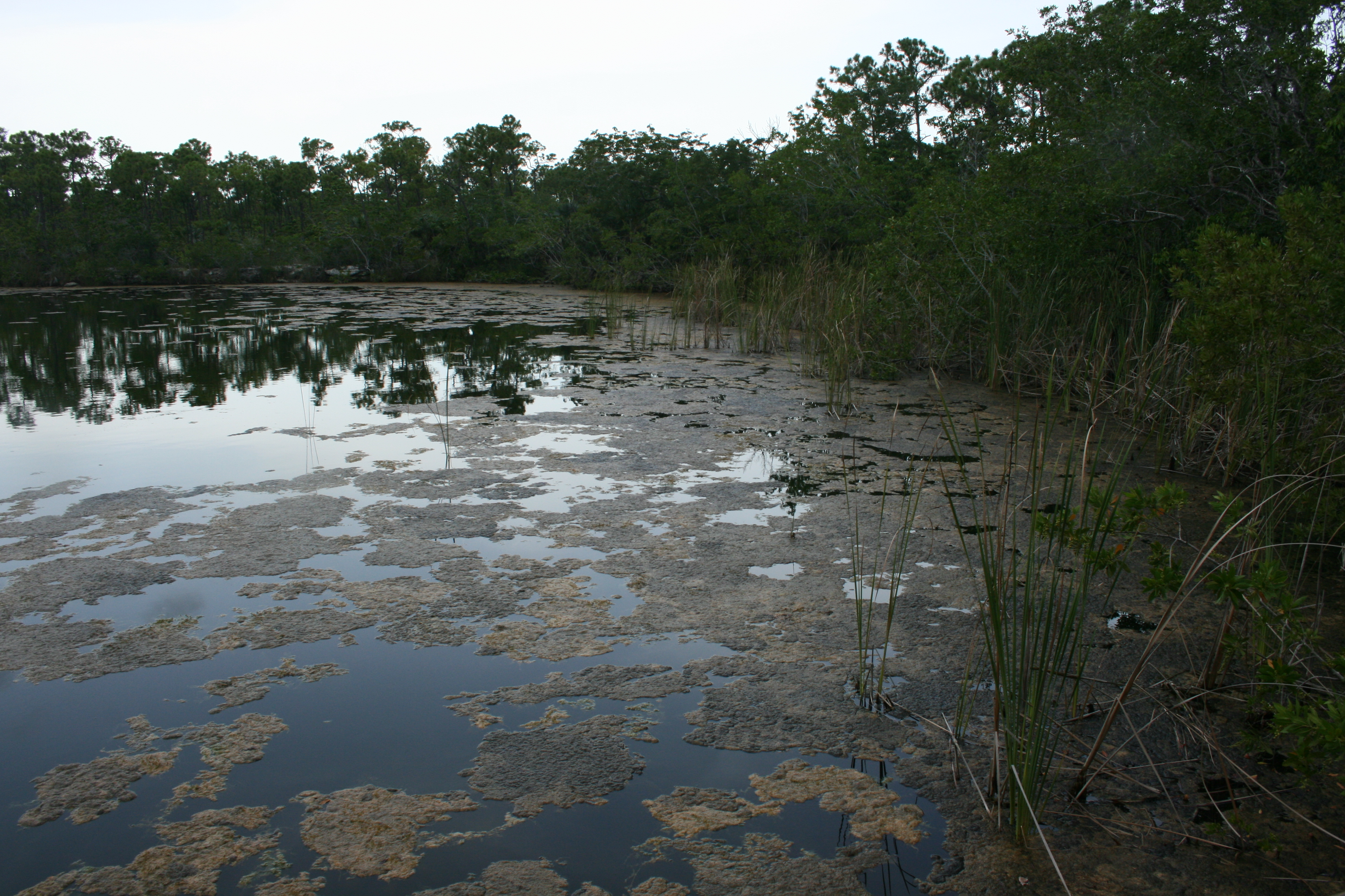 Blue Hole in National Key Deer Refuge, Big Pine Key, Florida.